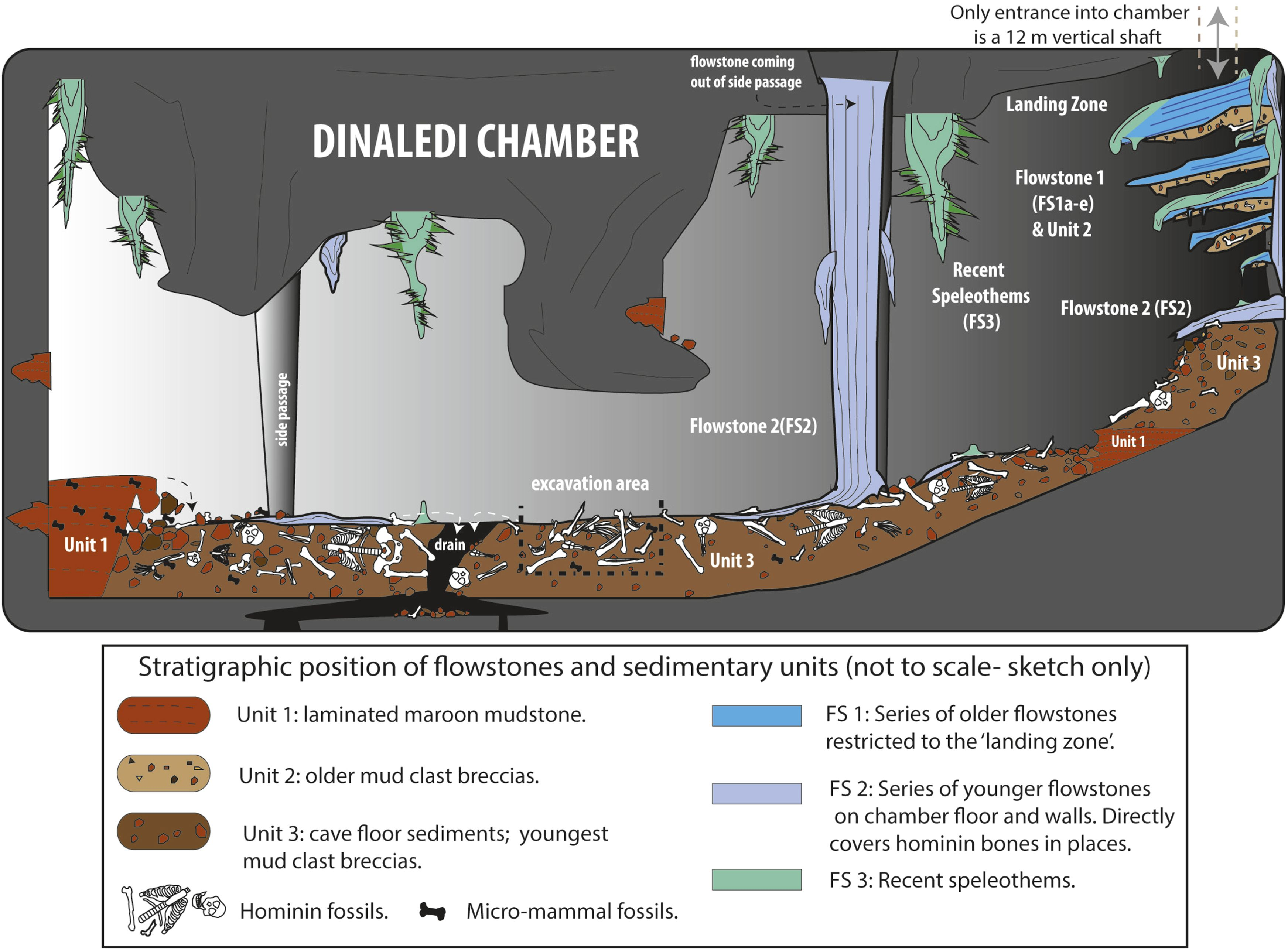 Cartoon illustrating the geological and taphonomic context and distribution of fossils, sediments and flowstones within the Dinaledi Chamber. The distribution of the different geological units and flowstones is shown together with the inferred distribution of fossil material. The fossils came into the cave at the time of the deposition of the unit 1, 2 & 3 sediments via the chamber entrance at top right. Unit 1 represents early sediments which contain only some rodent fossils. Unit 2 represents sediments attached to side wall by flow stone, i.e. remnants of early deposits that do contain fossil bones of Homo naledi. Unit 3 represents rubble sediments containing most fossil bones.